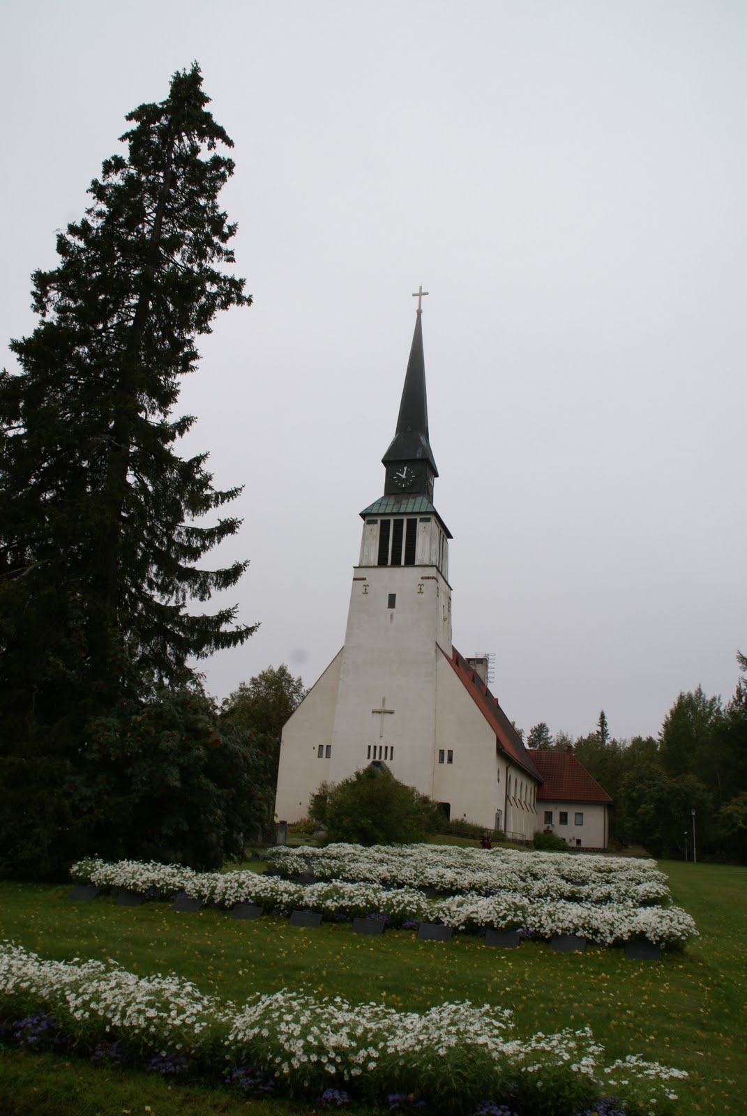 Kemijärvi Church in Finland